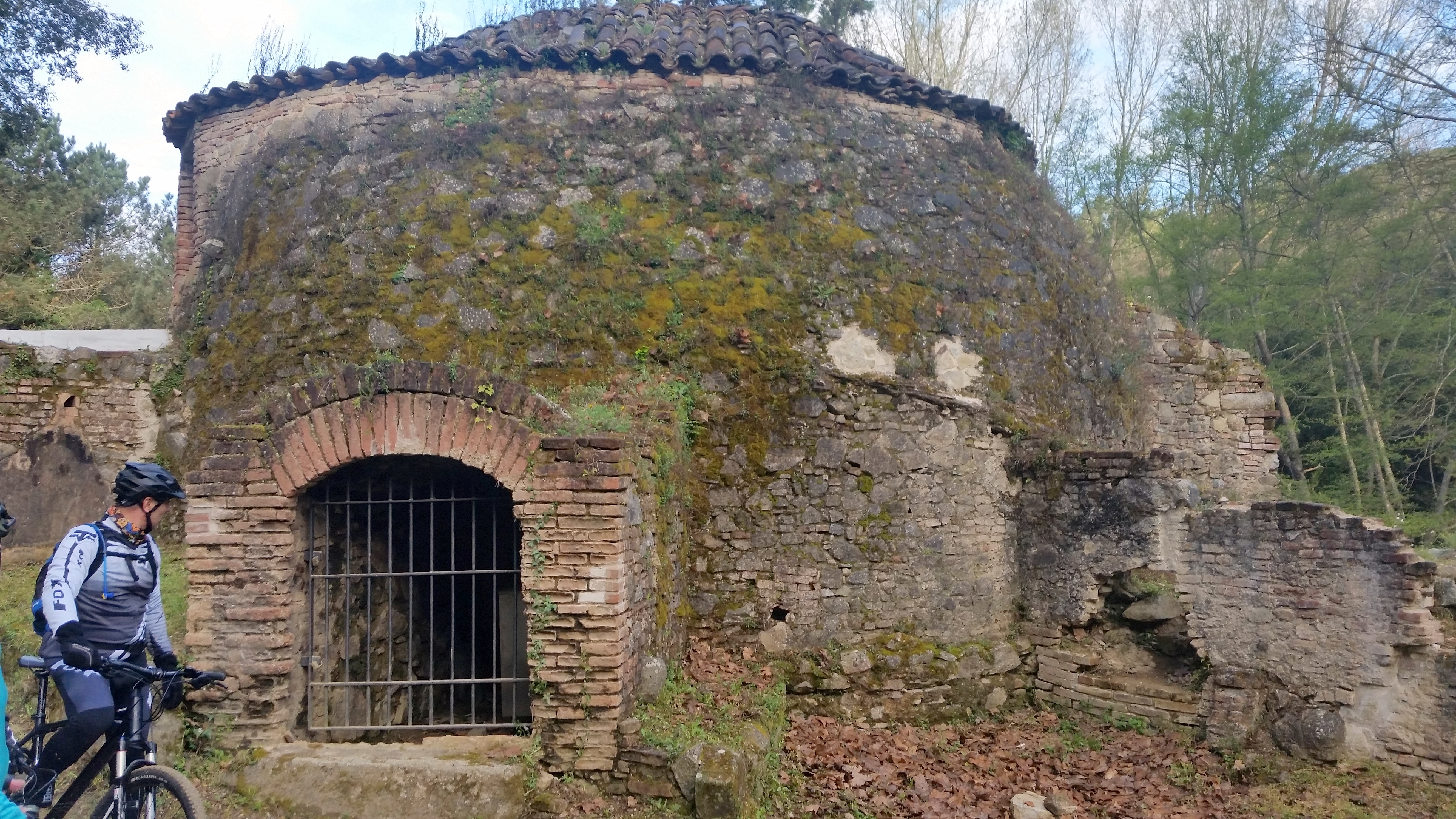 Pou de Glaç (Ice cave), Canyamars, Barcelona Spain